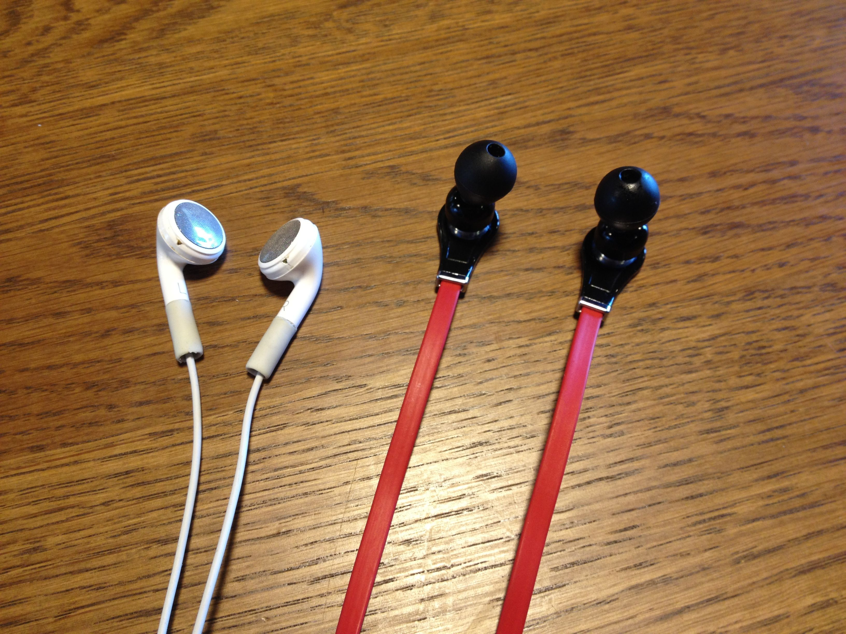 Standard iPhone earbuds and Dr. Dre Beats High-definition earbuds